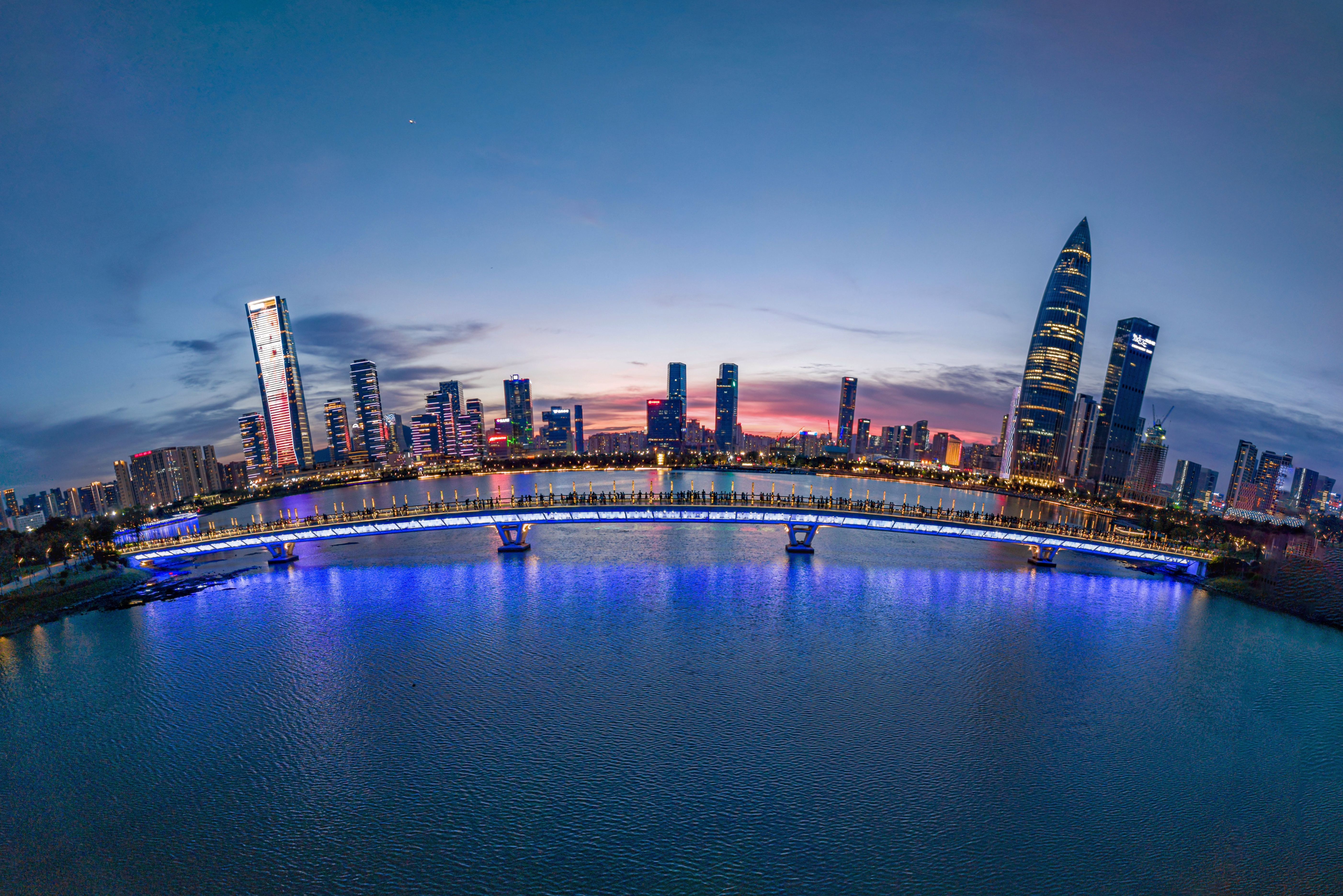 Night View of Office Buildings in Shenzhen Bay, with the bridge of Shenzhen Talent Park in the front.